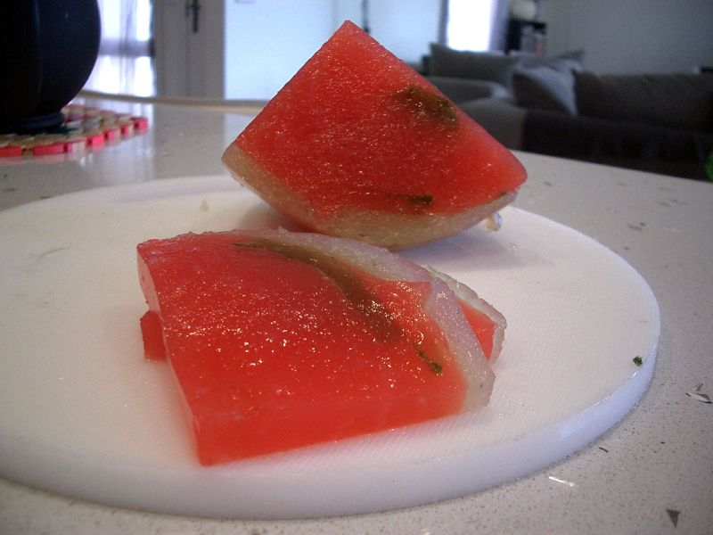 My Watermelon Agar 大菜 Jelly didn't make it to the party. I decided it didn't look pretty enough, although it was quite tasty. I made it with watermelon puree with honeydew puree for the "skin" and the dark green stripes were made with fresh mint jelly. The puree must have interfered with the agar jelly, because it didn't set firm enough.